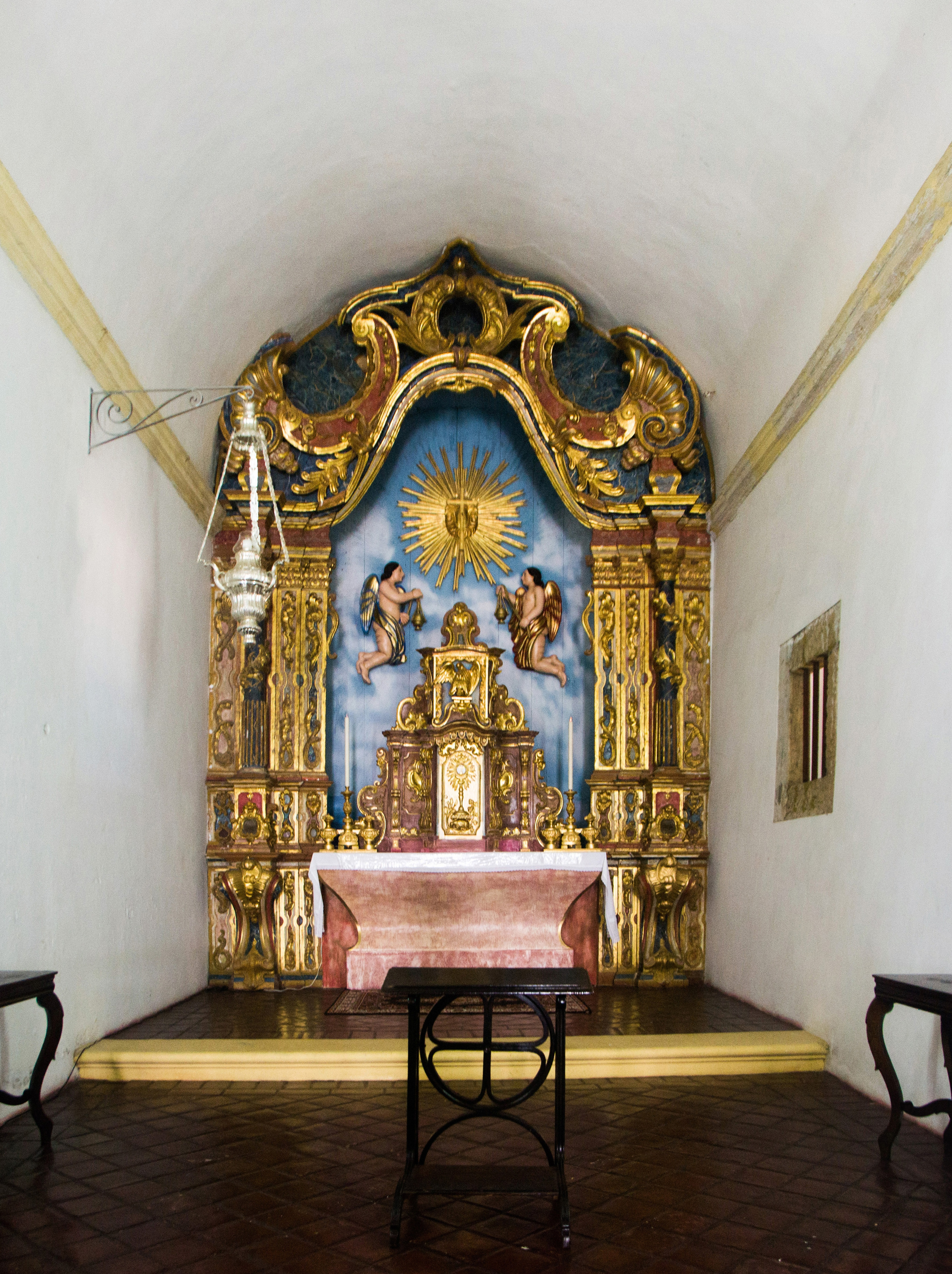 Se Church - Olinda, Pernambuco, Brazil